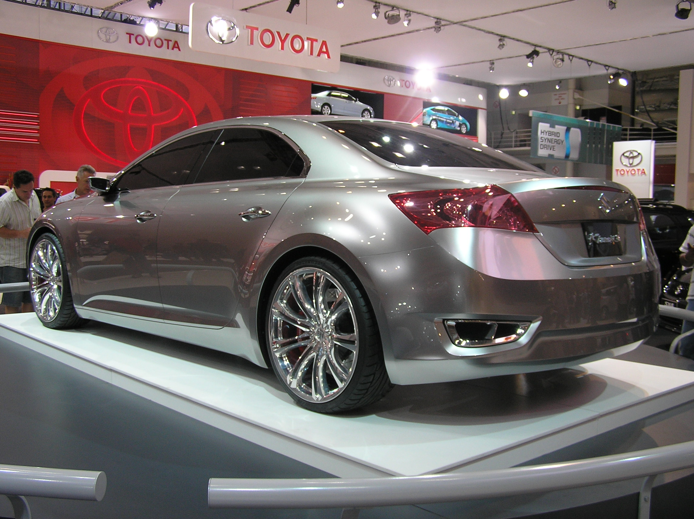 Suzuki Kizashi